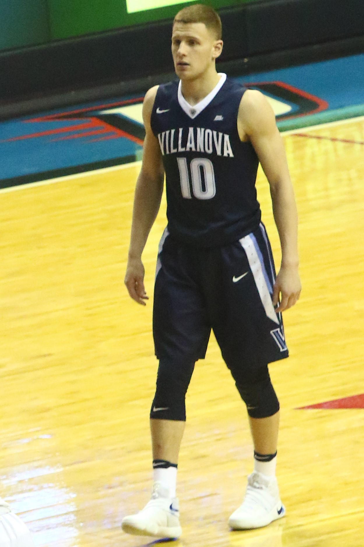 Donte Divencenzo for the w:2016–17 Villanova Wildcats men's basketball team at Allstate Arena